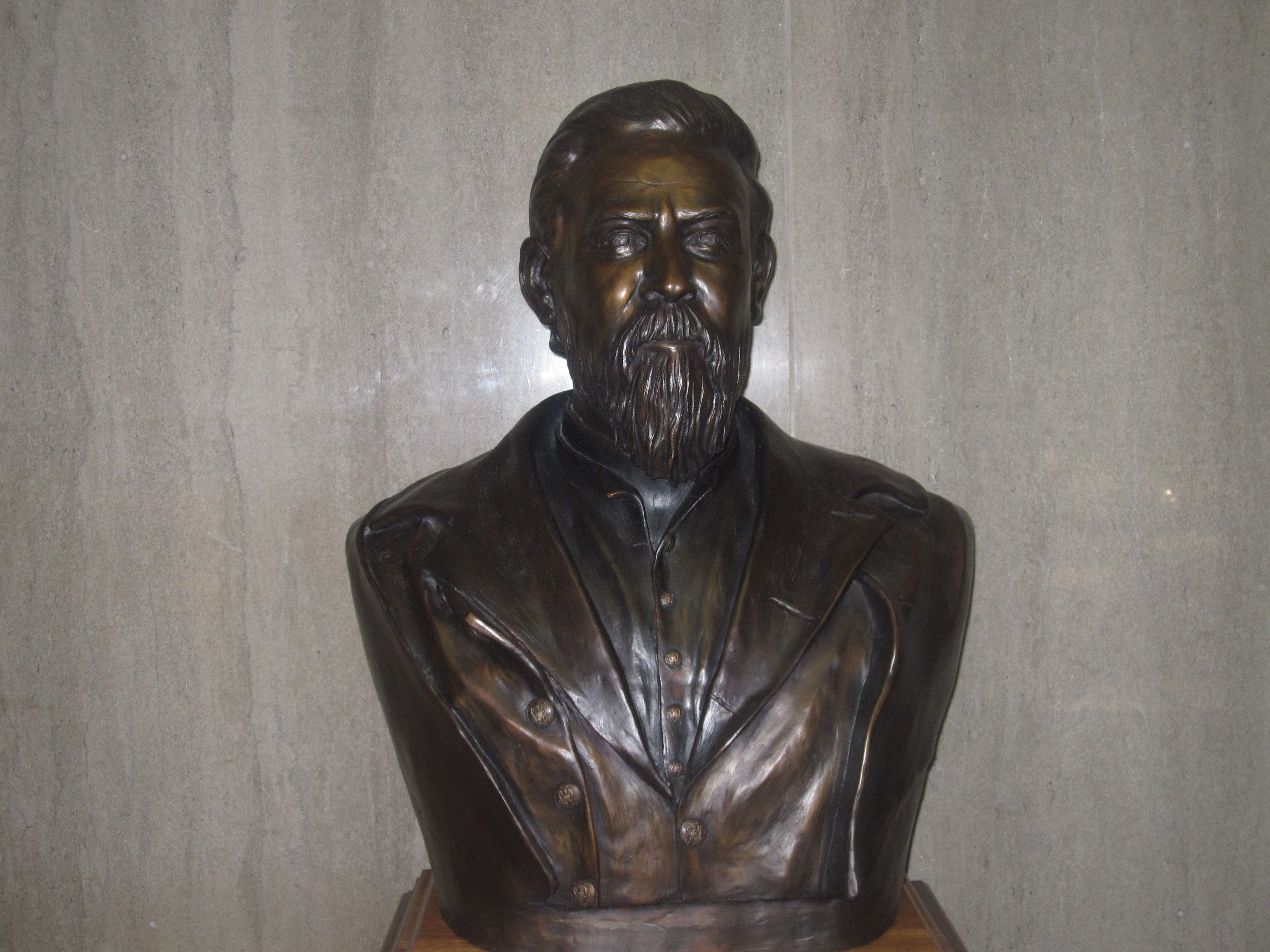 I took photo in Longview, TX, with Canon camera.